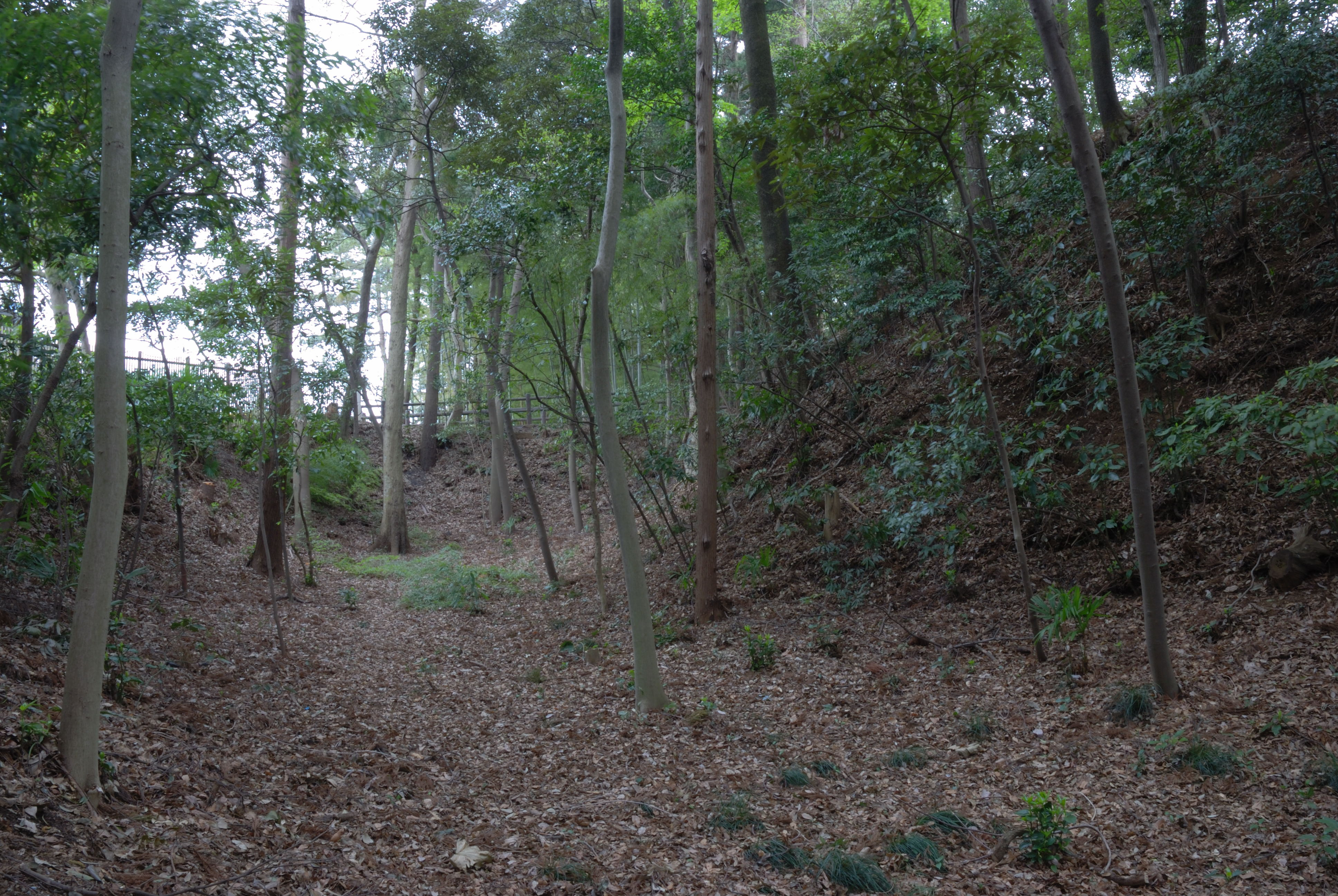 Negiuchi castle karabori